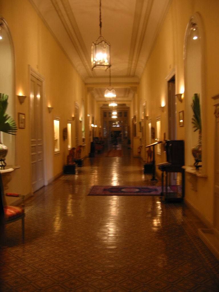 Inside the Old Winter Palace hotel in Luxor. Picture taken by myself (electric_cynic) in July 2005, and can also be found on Flickr at